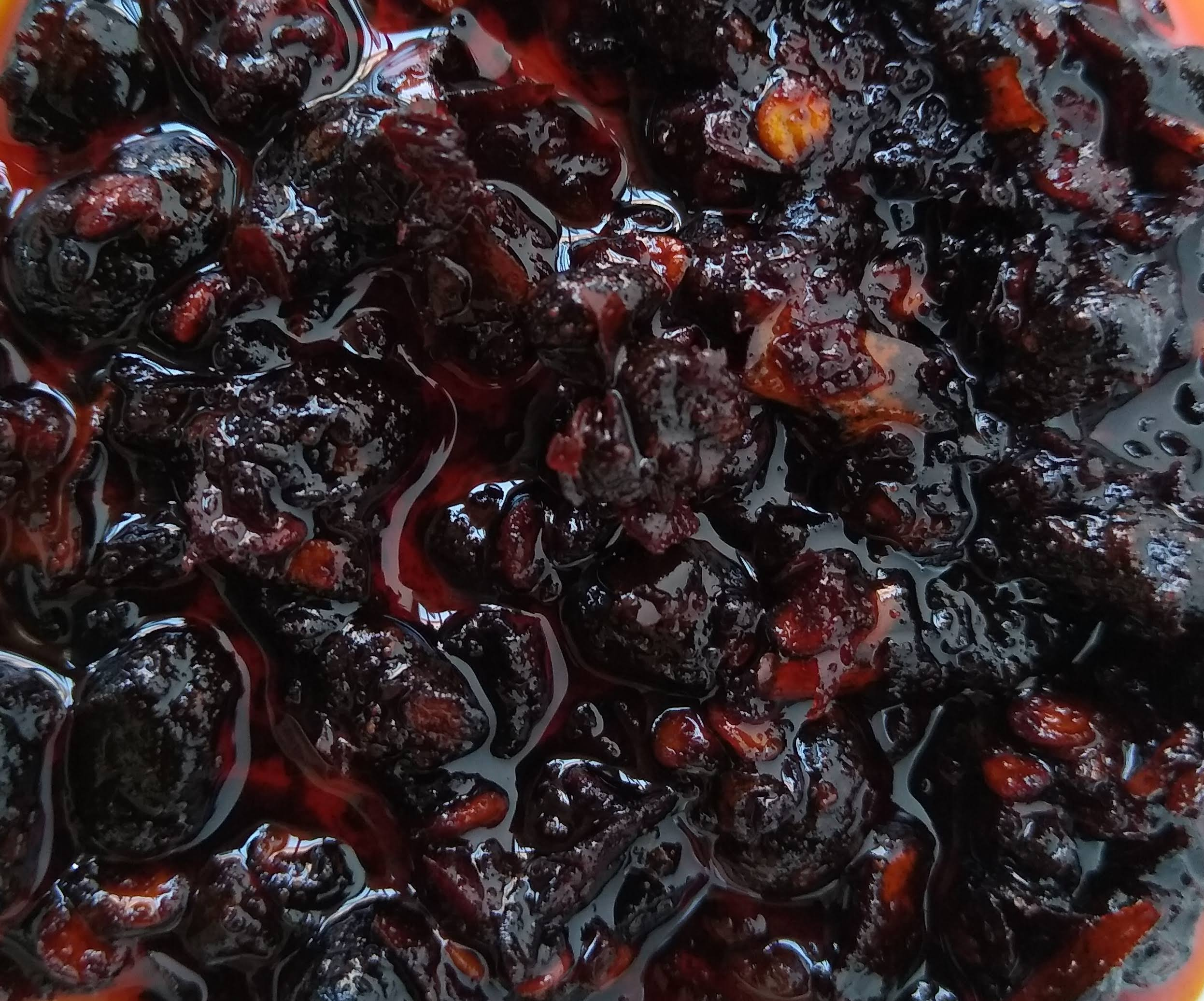 Laoganma, a popular sauce in China. Oil, chili pepper, and fermented soybeans.